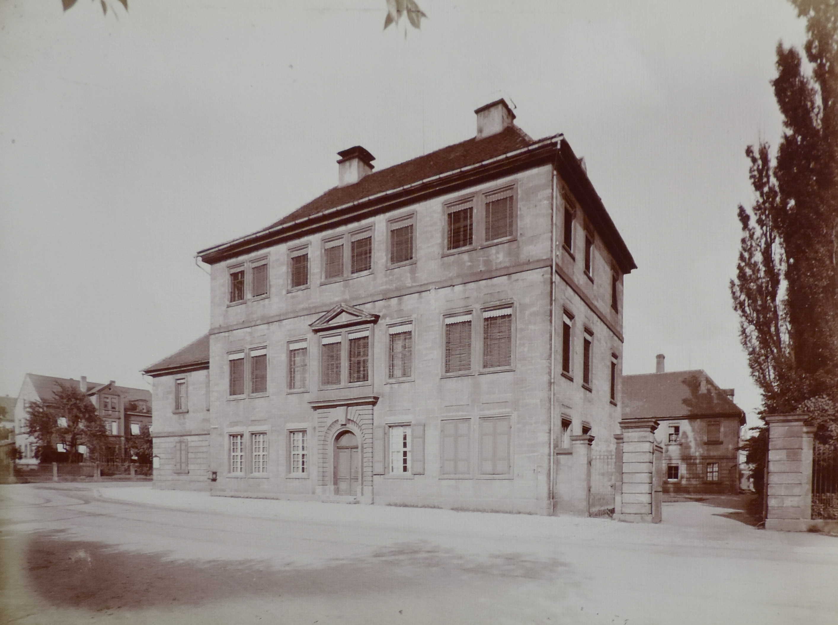 Views and photos of Bayreuth, Germany, gifted to Ferdinand I of Bulgaria to commemorate his 25-year rule. Photo of a noble house, 1905.